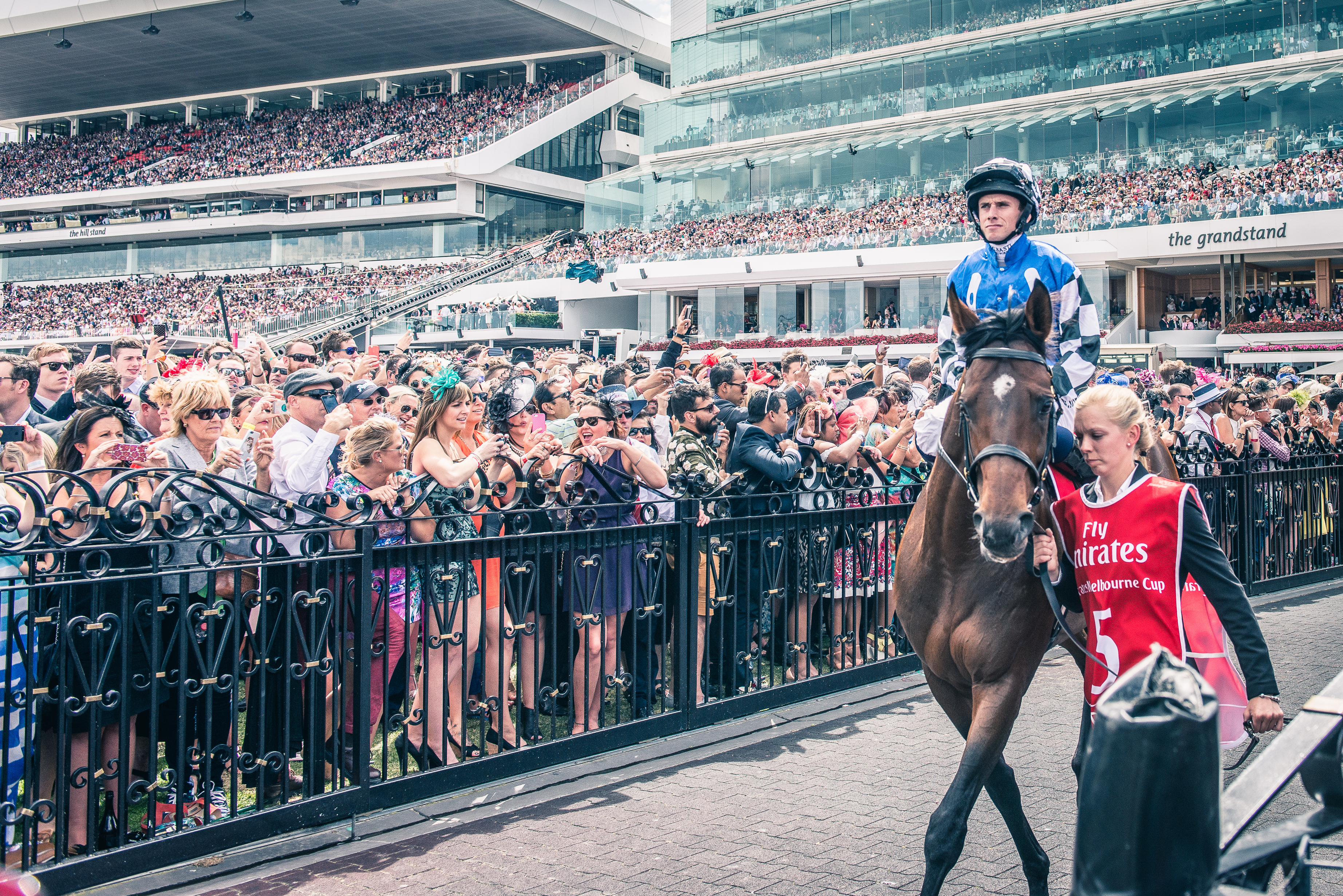 German horse Protectionist, ridden by English jockey Ryan Moore about to ride out onto the track prior to the Emirates Melbourne Cup race. The camera focused on the background than on the jockey, I hadn't set my focus points to be on the centre only. It's all part of learning. I'm releasing this picture to Creative Commons; perhaps one day someone can sponsor me and I'll get media accreditation.